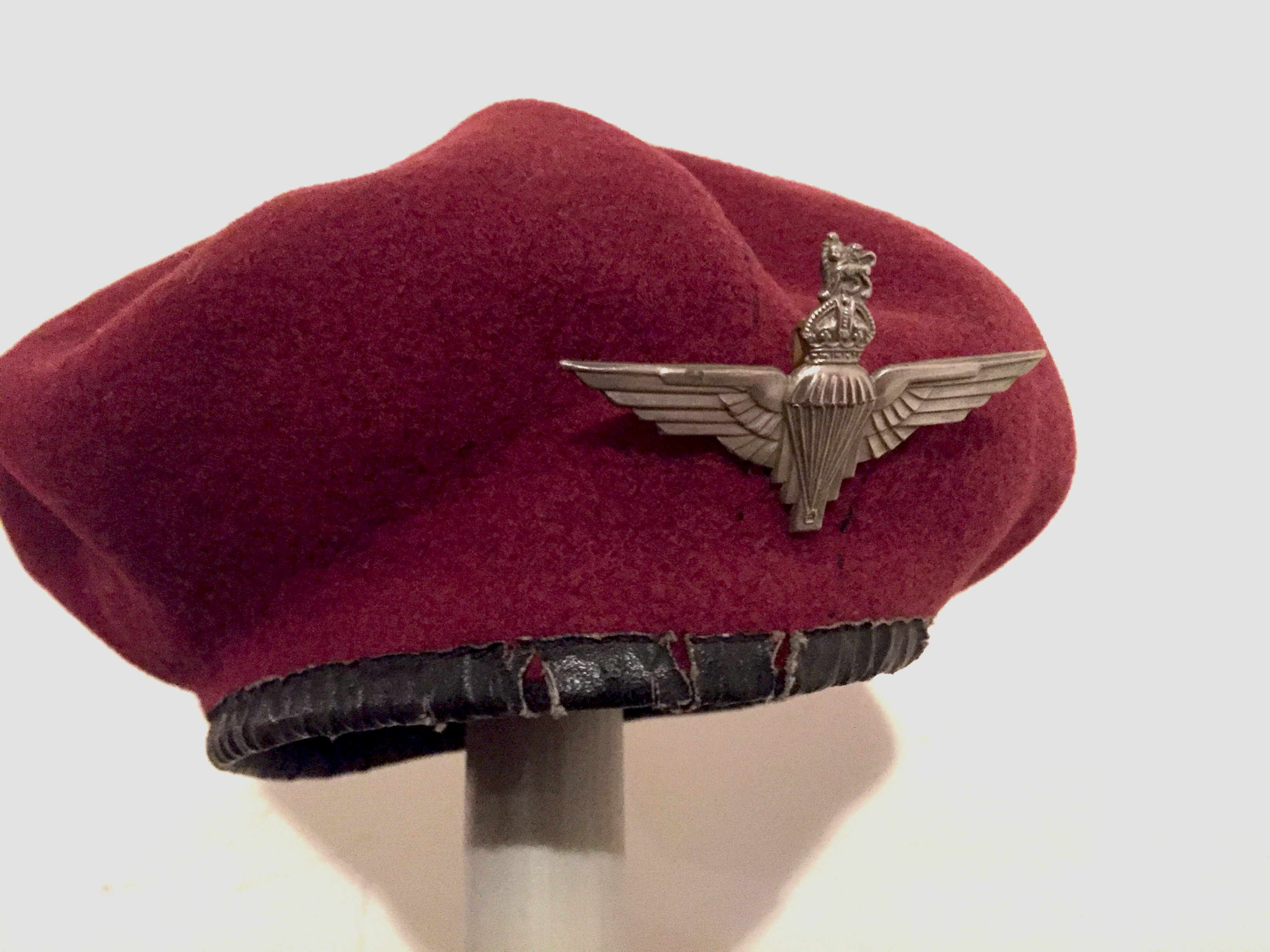 WWII Pegasus beret of the 1st British airborne.